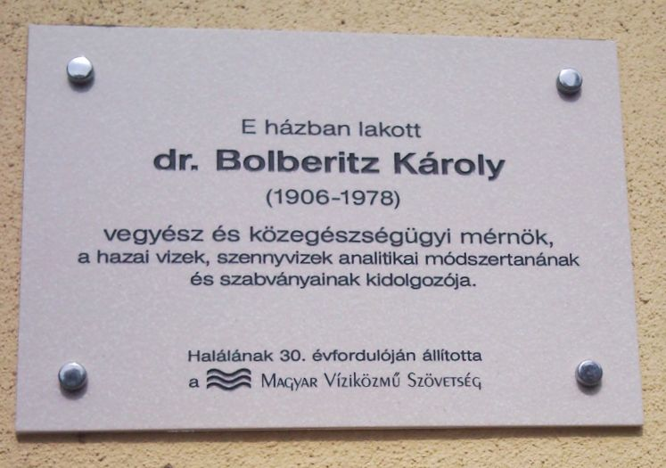 Károly Bolberitz commemorative plaque in Budapest District I, Iskola Street No 35/b